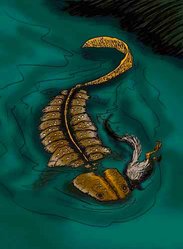 Reconstruction of the temnospondyl Koolasuchus seizing the ornithopod Leaellynasaura amicgraphica, from Lower Cretaceous Victoria, Australia